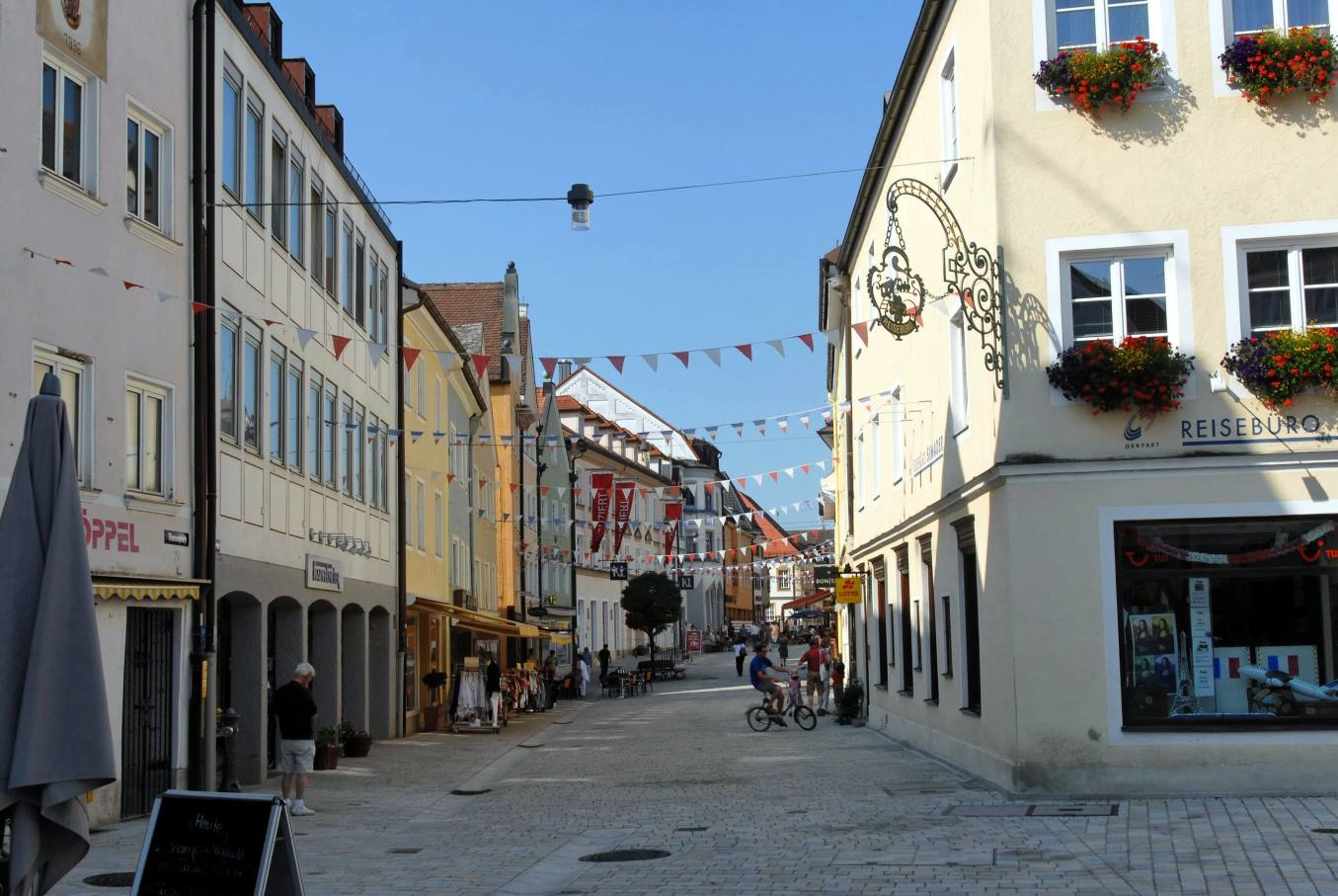 Weilheim, street Schmiedstrasse